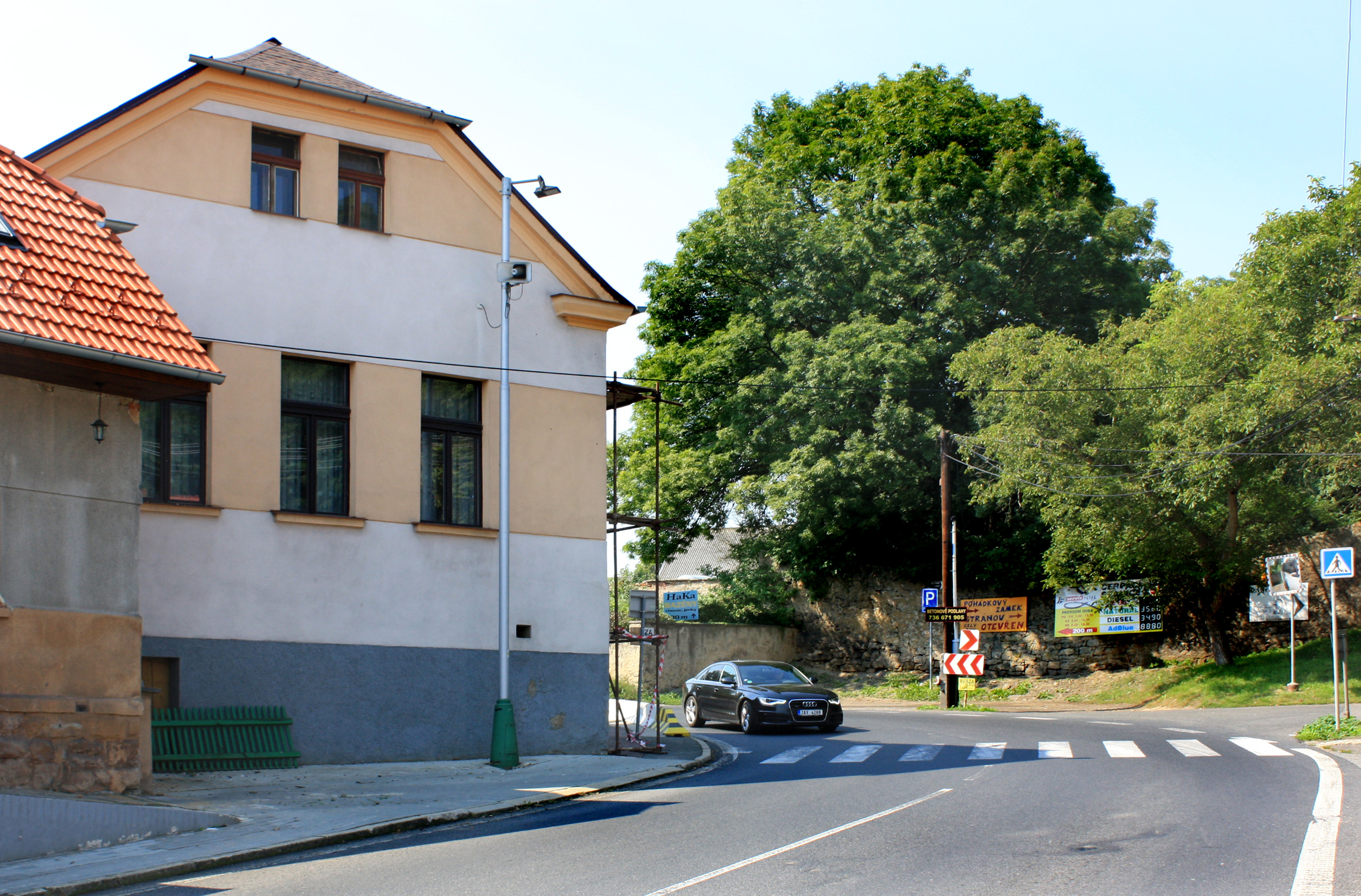 Municipal office and road No 16 in Jizerní Vtelno, Czech Republic